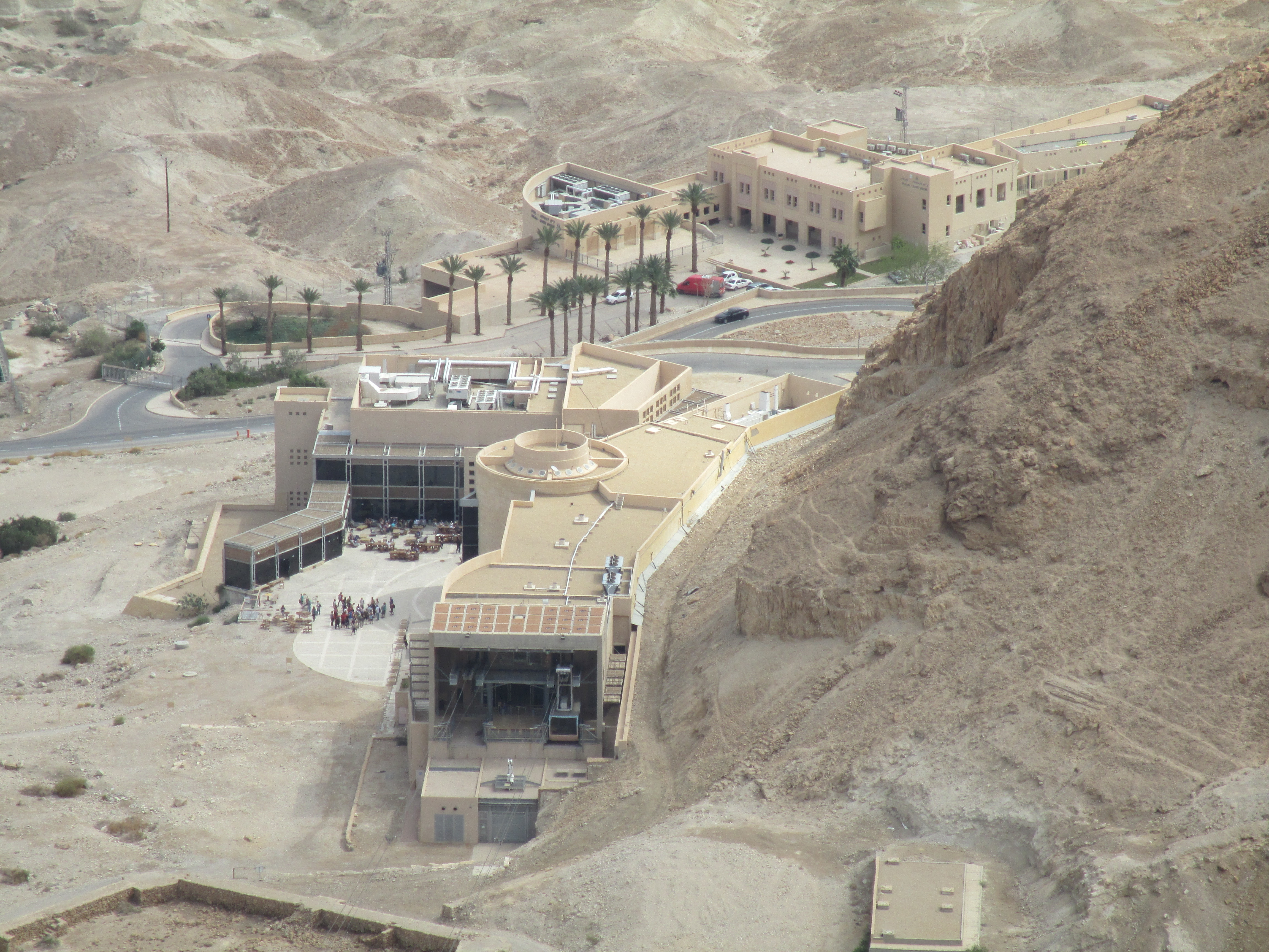 Lower cable car station in Masada